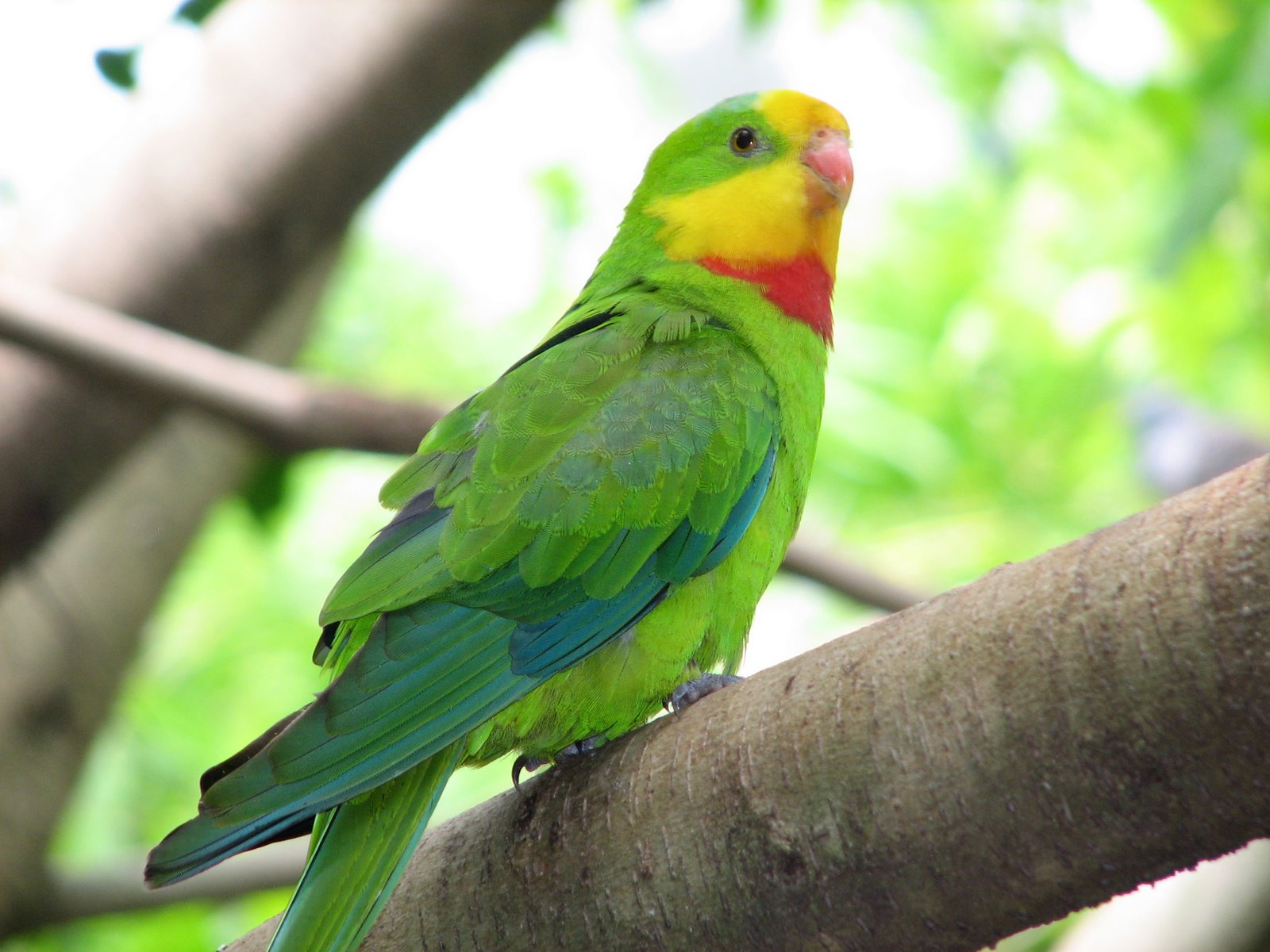 Superb Parrot at the Flying High Bird Sanctuary, Apple Tree Creek, Queensland, Australia.